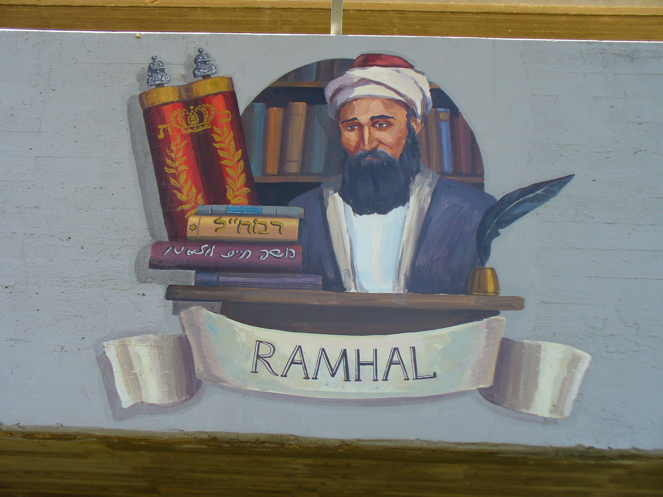 Wall painting of Moshe Chaim Luzzatto (aka Ramhal), at the wall of Akko's Auditorium, Israel. Don't know the painters name though... More information (in Hebrew) about the paintings can be found here